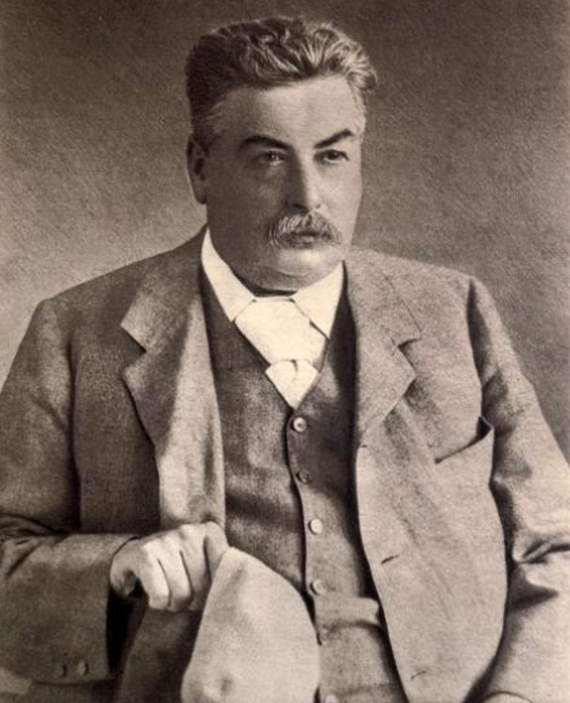 Charles Rowland Palmer Morewood (1843-1910) owner of Alfreton Hall.